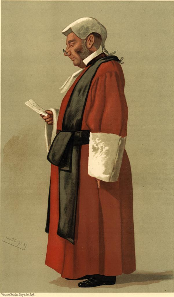 Smith, Archibald Levin - “3rd Commissioner”.